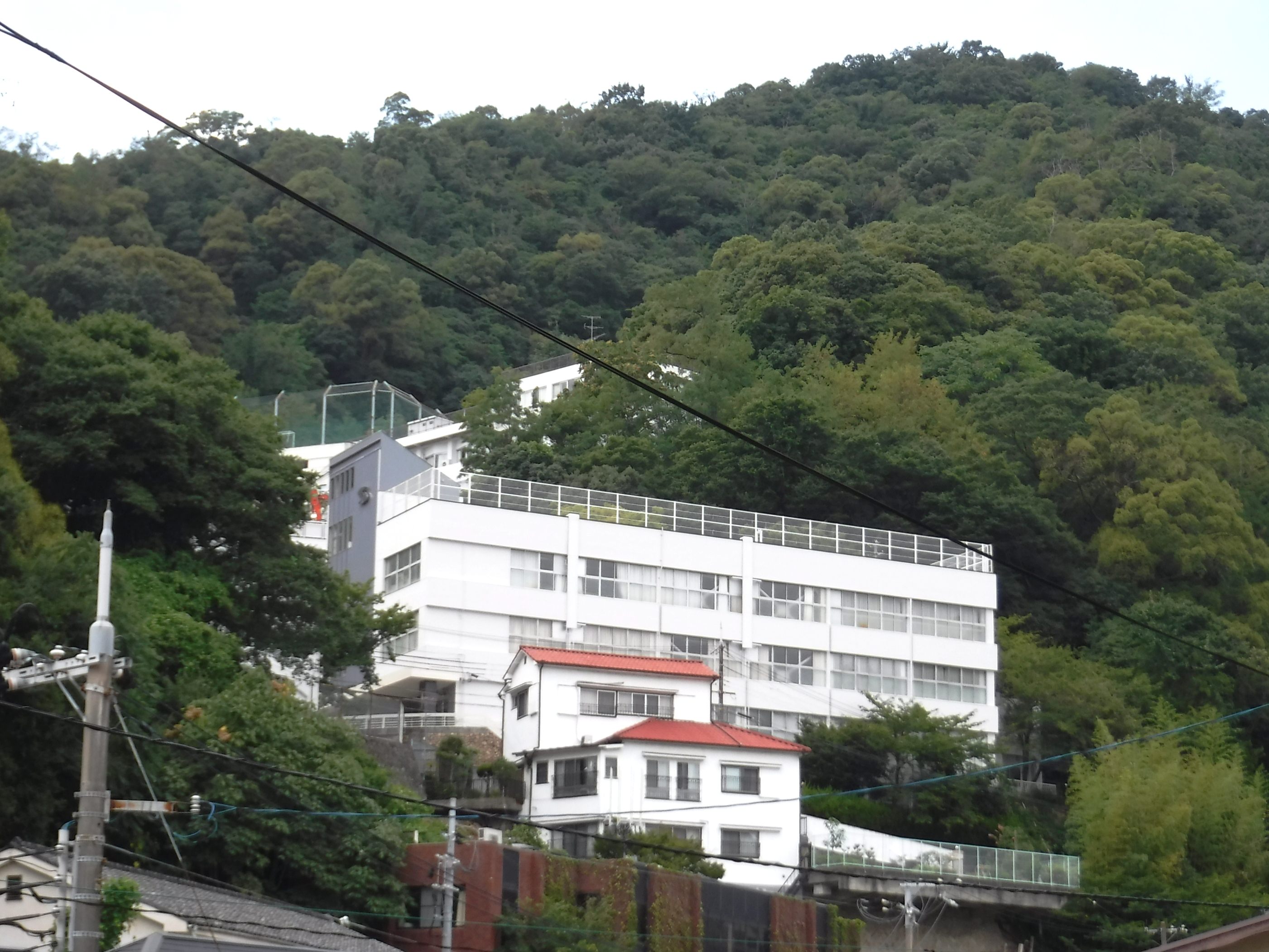 Far view of Kobe Daiichi High School in Chuo-ku, Kobe, Hyogo, Japan.